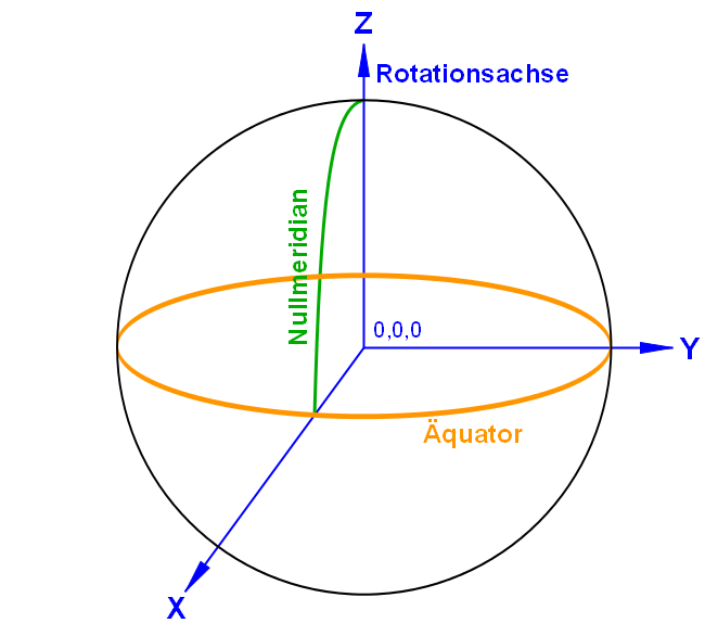 Geocentric coordinates